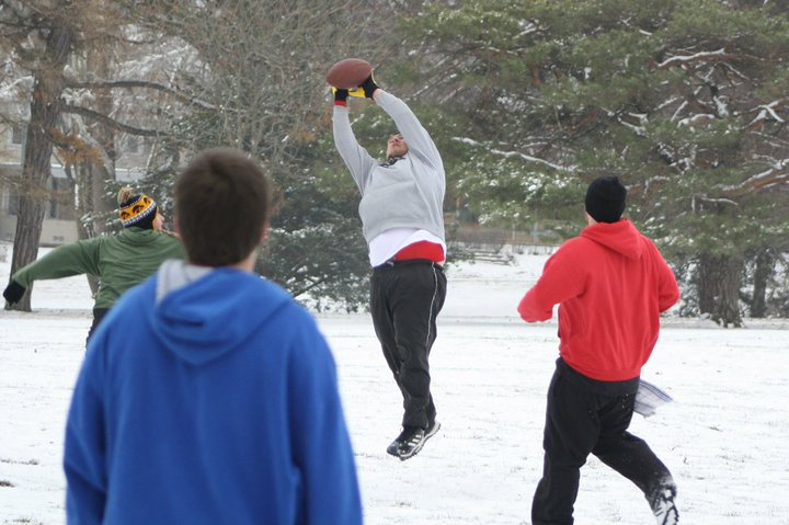 QCBFL - Snow Game 2011 Vander Veer Park, Davenport Iowa